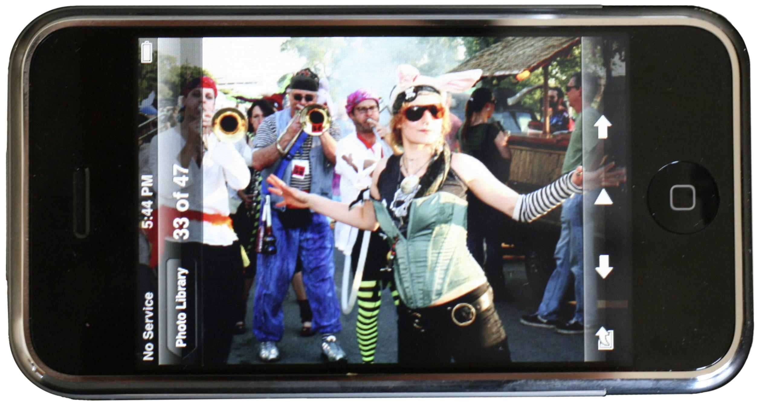 iPhoneDev Camp - and here is the original image from the Art Car Parade.